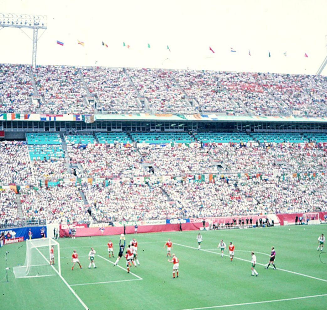 WM Football (Soccer) at the Citrus Bowl in Orlando, Florida on July 4, 1994. Ireland lost 0-2 to Holland. Referee was Peter Mikkelsen, Denmark